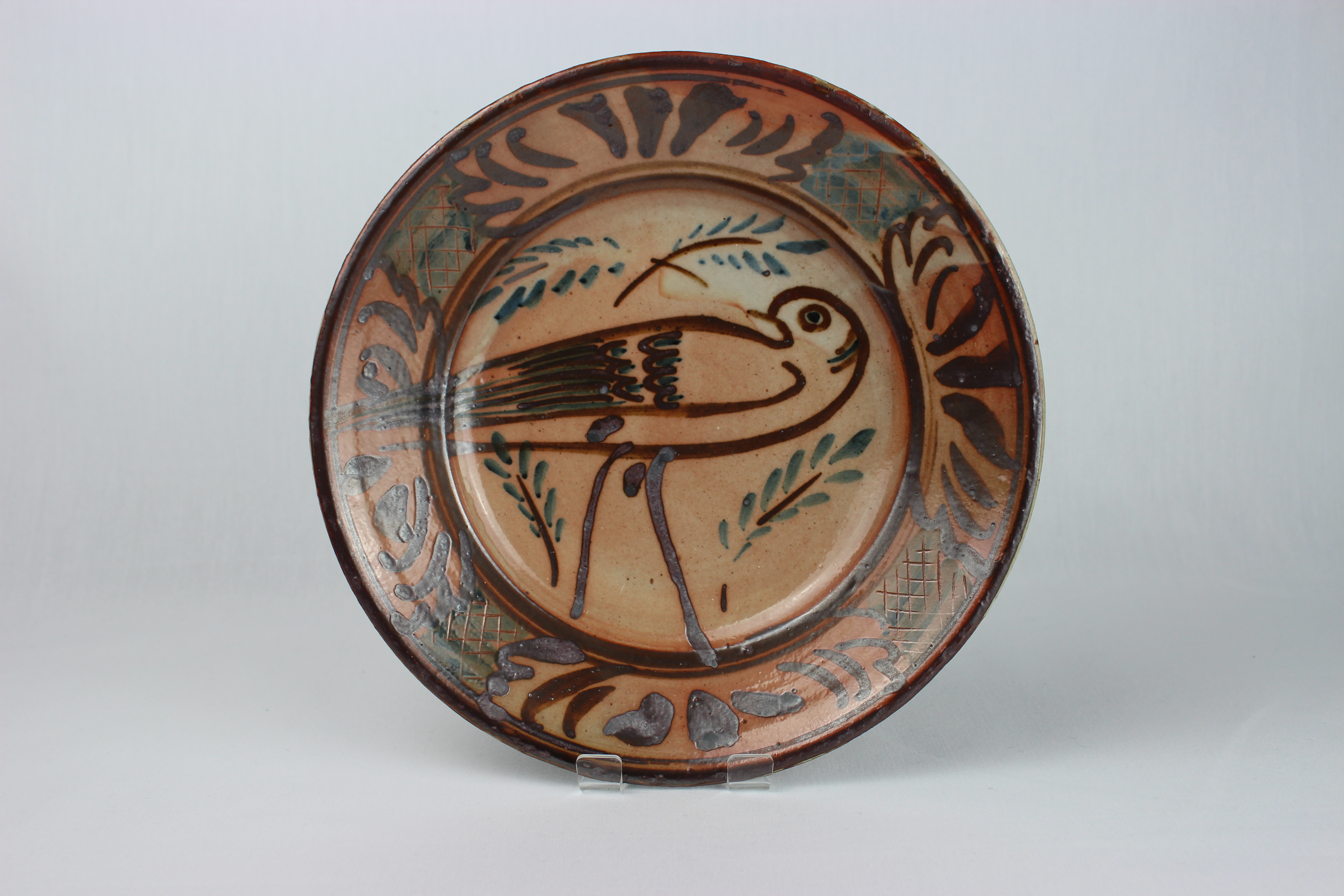 Plate painted with bird facing left and shino glaze over top.. From the W.A. Ismay Studio Ceramics Collection at York Art Gallery